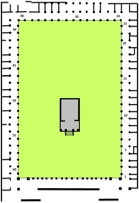 Plan of Corporations place in Ostia antique